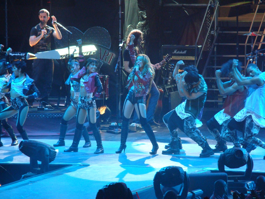 Miley Cyrus singing live in Curicica, Rio de Janeiro, RJ, BR from her tour 'Gypsy Heart'